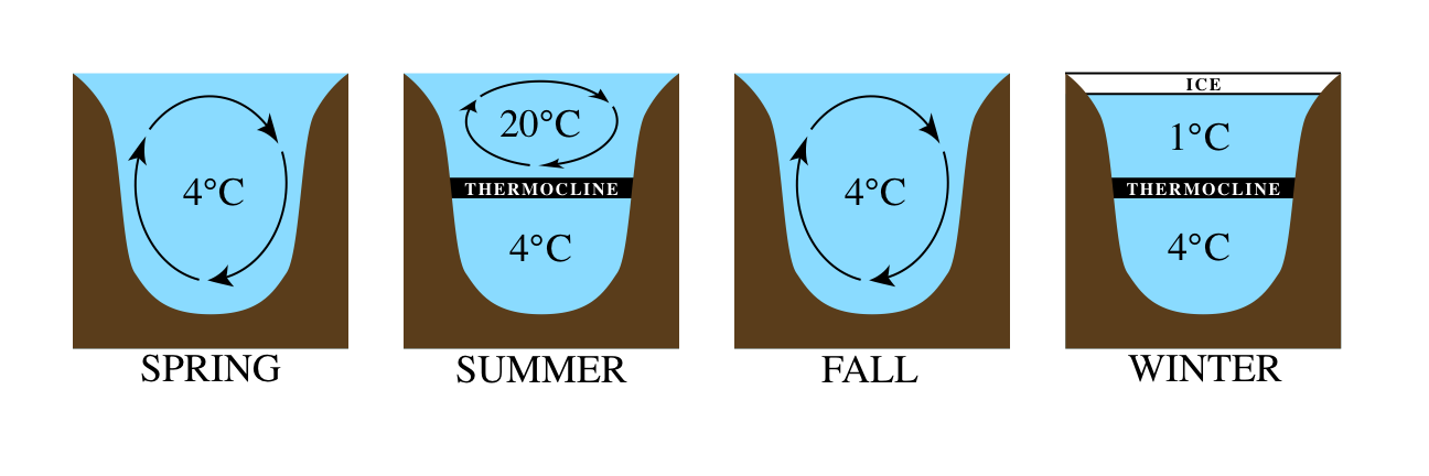 created by author